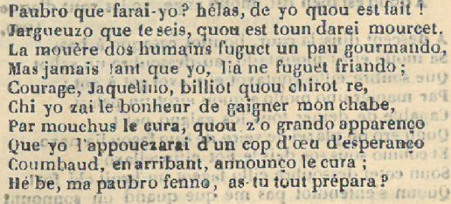 sDLGRYUOIIYTRRTYUOIPUYTRERTYUOMIRE GYHHHghh